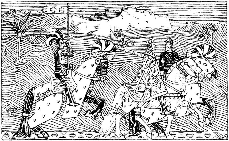 Gerhard Munthe: Illustration for Magnussønnens saga. Snorre 1899-edition.